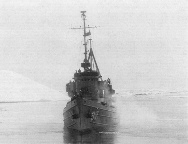 The fleet tug USS Alsea (AT-97) US Department of Navy Naval Historical Center Dictionary of American Naval Fighting Ships (DANFS)